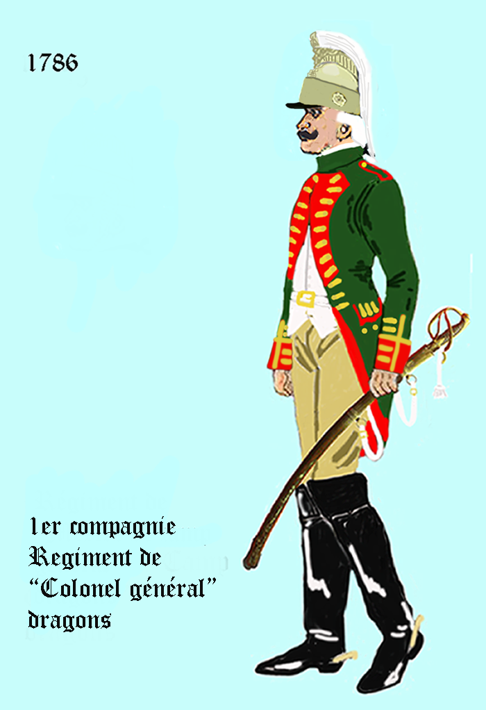 Uniform of the french regiment Colonel général Dragons (1st company)